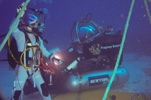 A NEEMO 16 aquanaut adjusts umbilicals while NASA astronaut/DeepWorker submersible pilot Michael Gernhardt waits in the background. NASA photo in public domain.